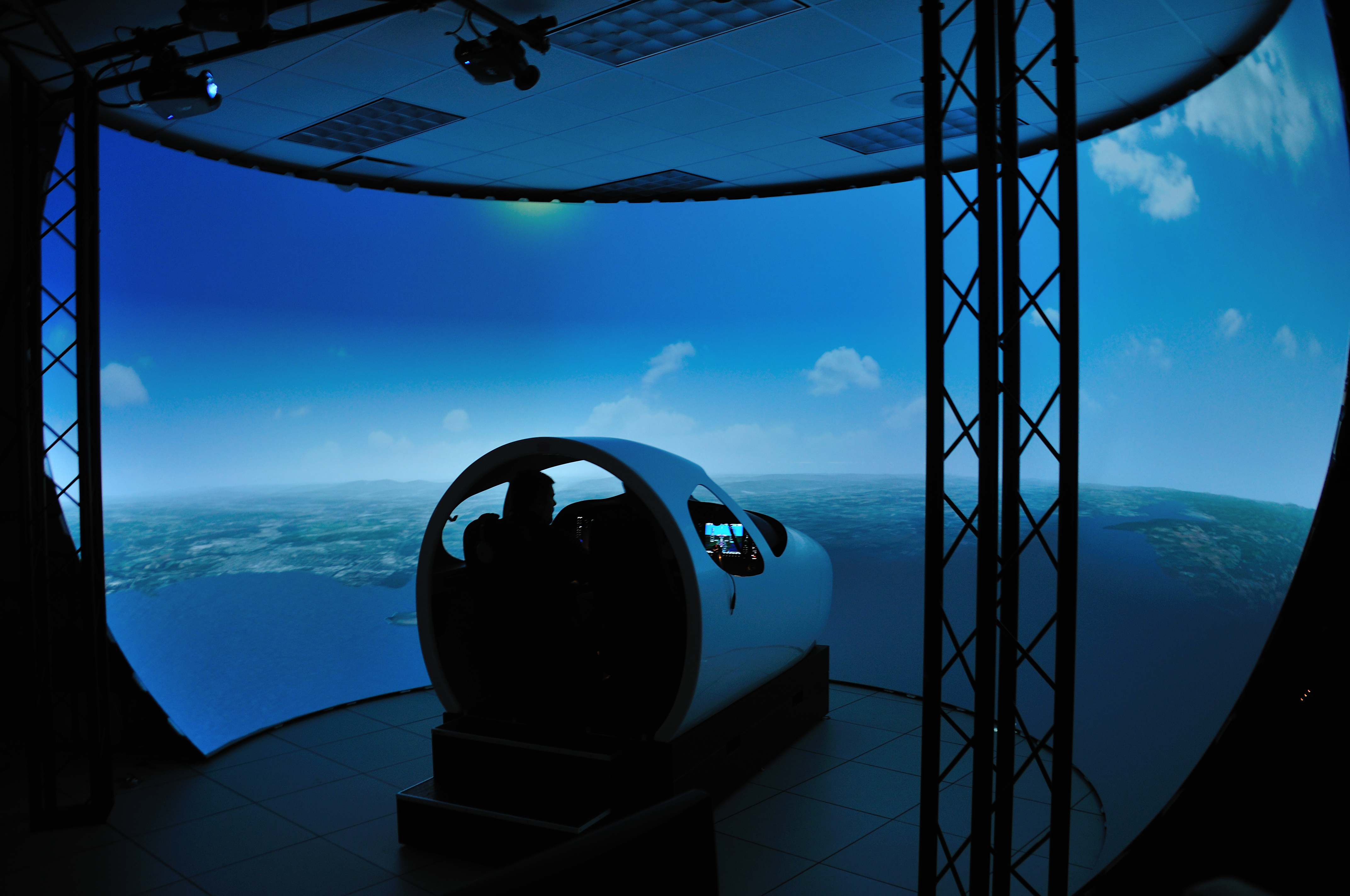 The Mustang is a Frasca Flight Simulation Training Device (FSTD) for the Cessna Citation Mustang Very Light Jet (VLJ).